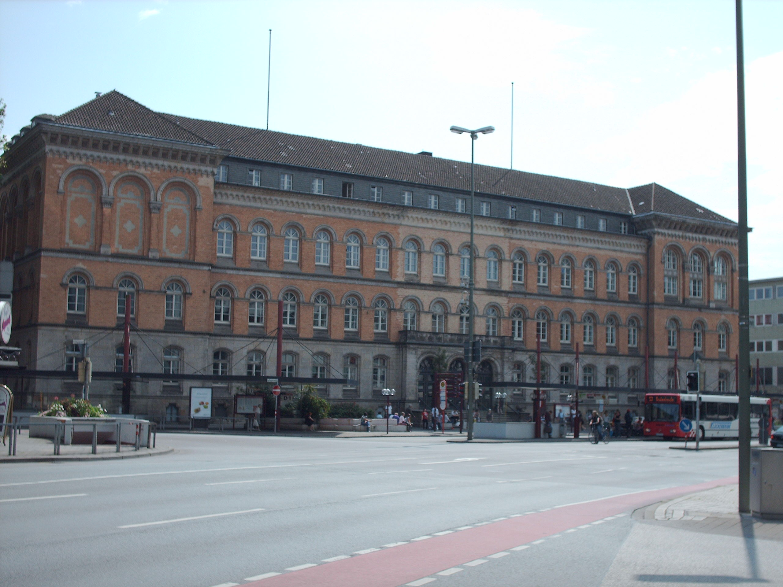 Courthouse Landgericht Osnabrück, Osnabrück, Germany check usage